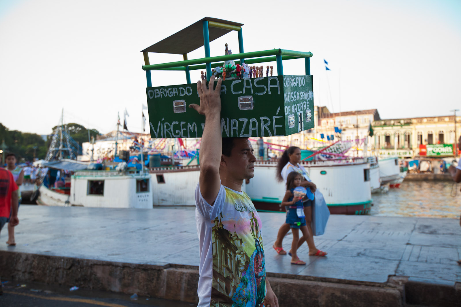 BELEM, PA, BRASIL, 13-10-2013: Fiel carrega casa para pagar sua promessa no Cirio de Nazare. Foto: Zé Carlos Barretta.